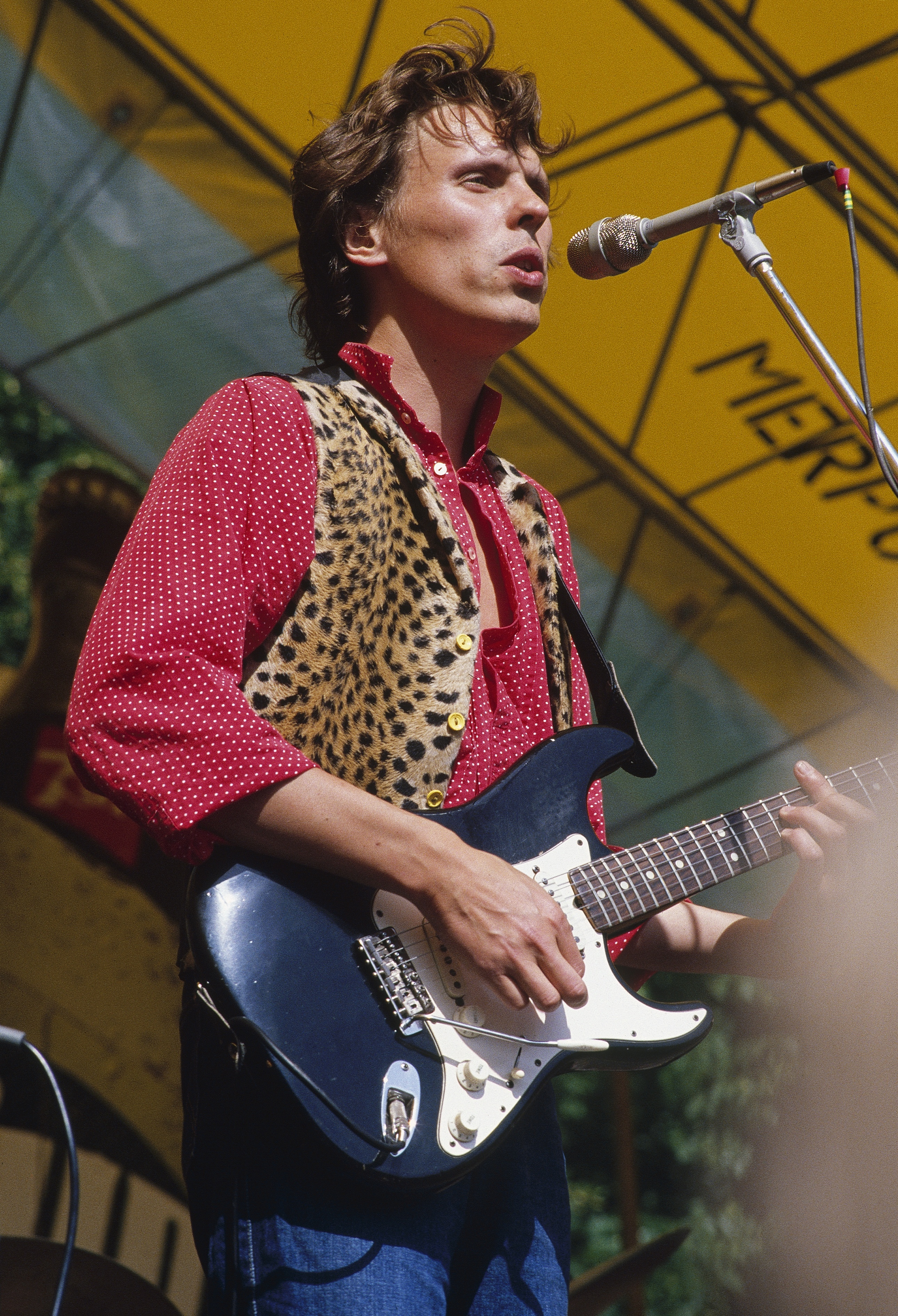 Photograph of the Finnish musician Dave Lindholm performing in Helsinki.